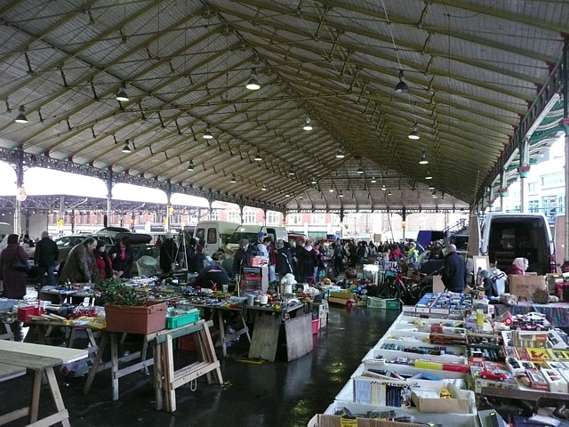 Preston Market There are two large covered sections, next to a modern market hall with a car park on top.